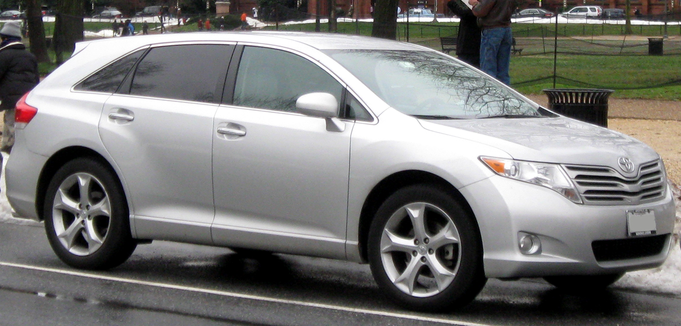 2009-2010 Toyota Venza photographed in Washington, D.C., USA.